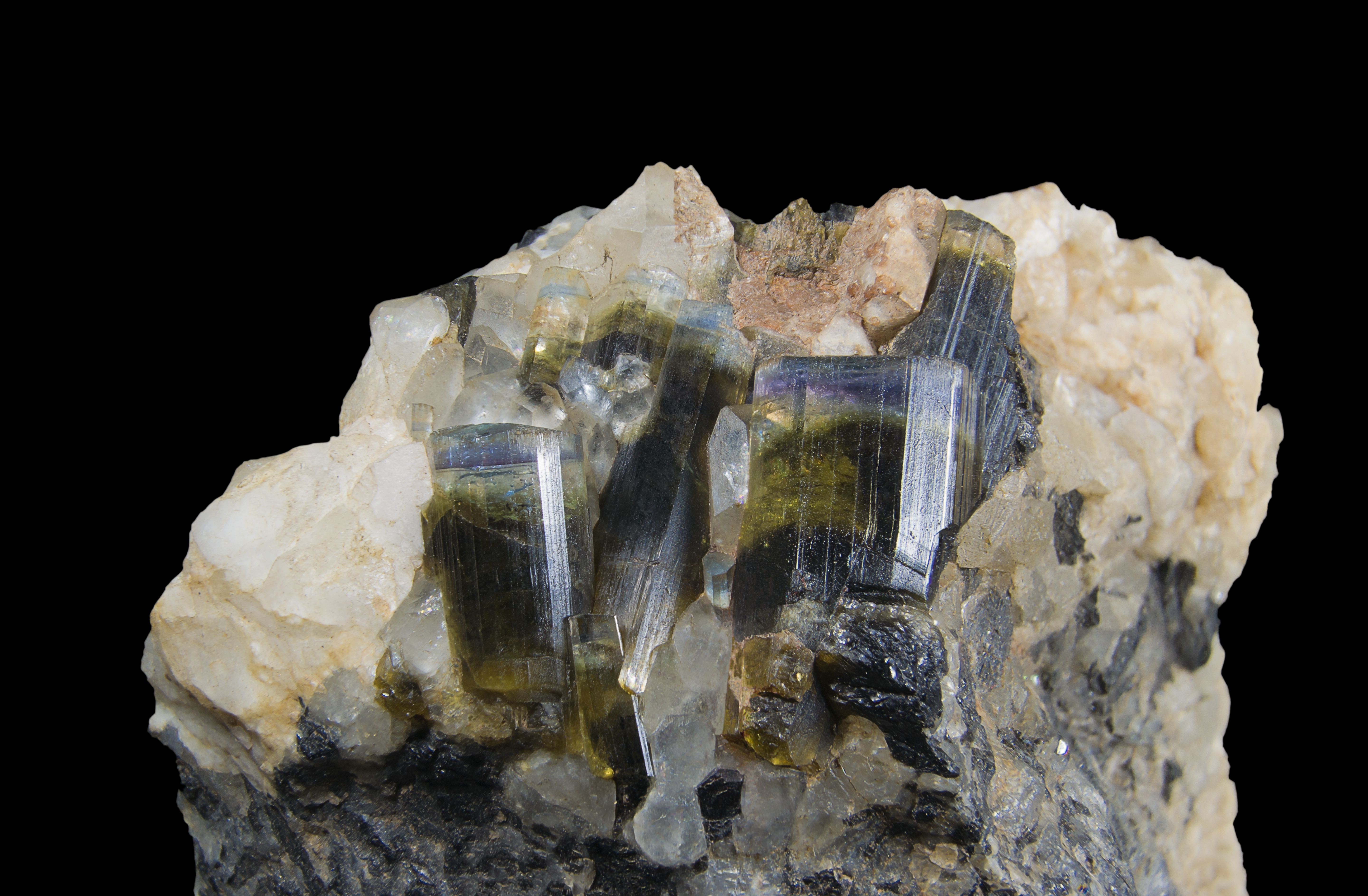 Elbaite Locality: San Piero in Campo, Campo nell'Elba, Elba Island, Livorno Province, Tuscany, Italy - Topotype deposit Size: 3.36 cm.